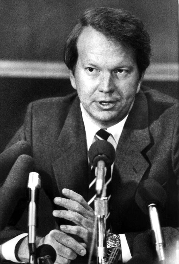 Portrait of Florida legislative representative Jon Mills